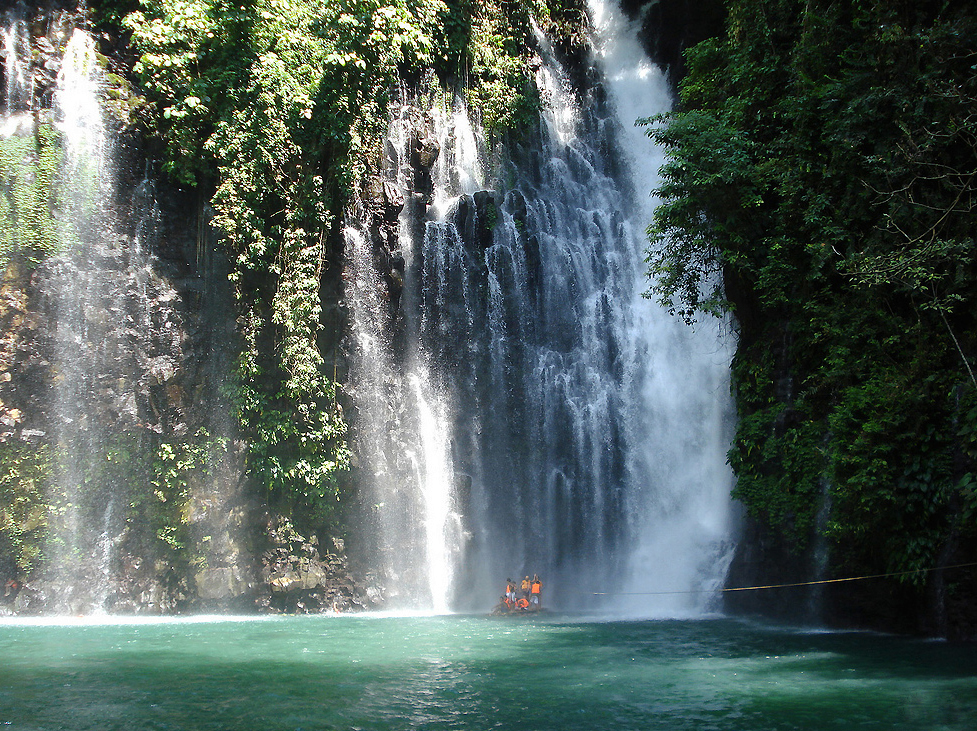 Tinago Falls is located in a deep ravine in Barangay Ditucalan, Iligan City. The falls plunges 240 feet (73 m) high from a cliff.